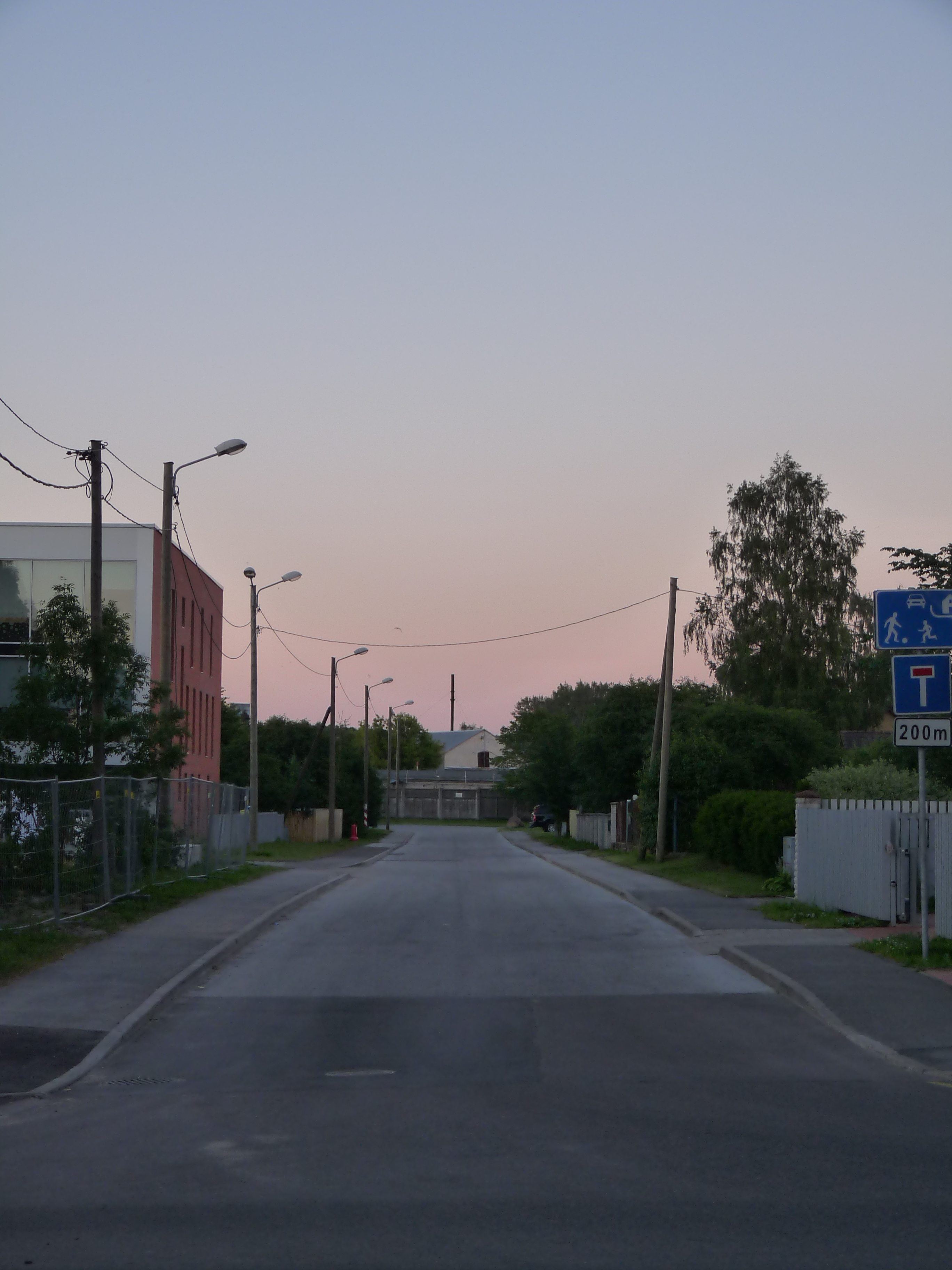 =Varre street in Tallinn, Estonia